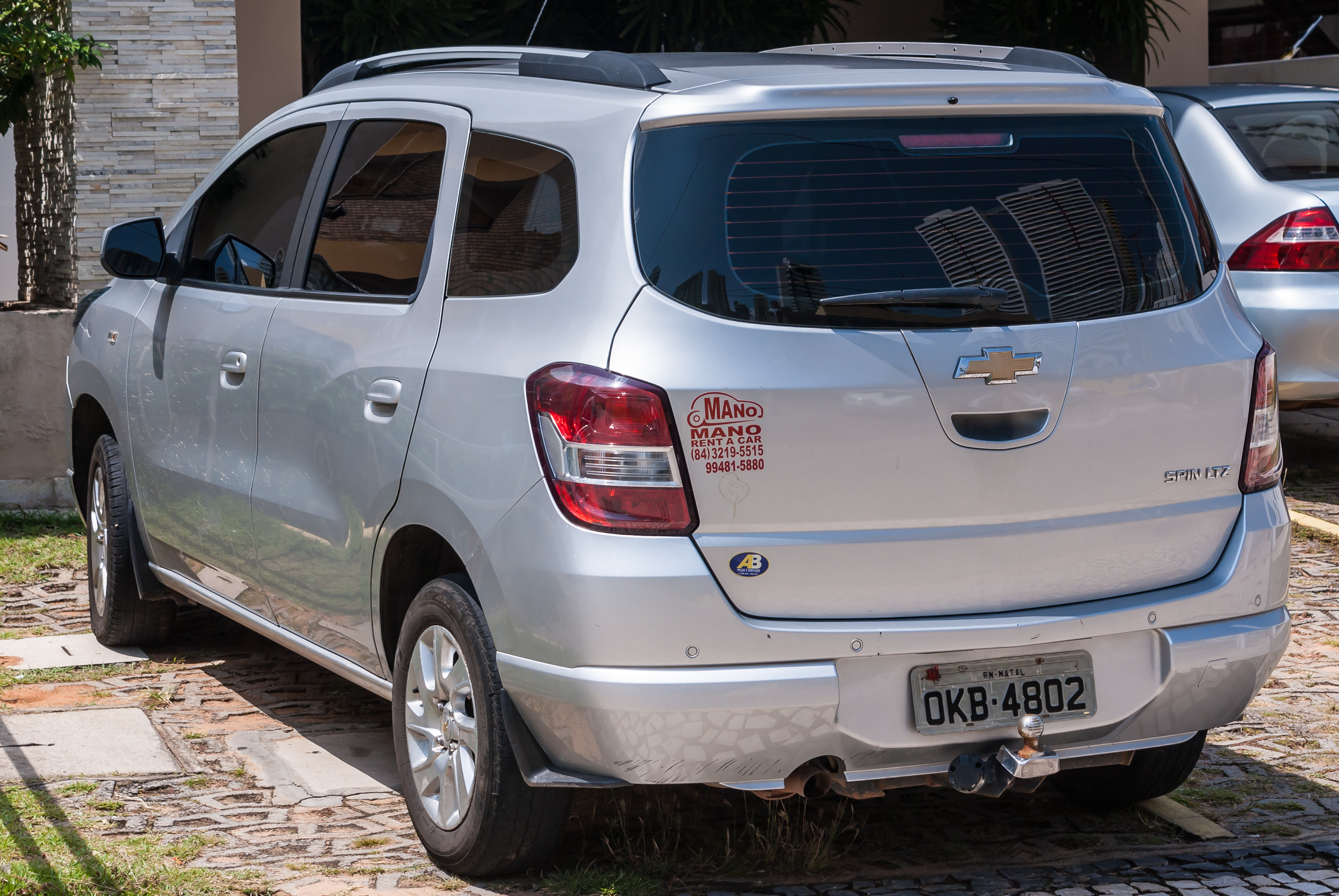 Rear view of a Chevrolet Spin LTZ, Natal, RN